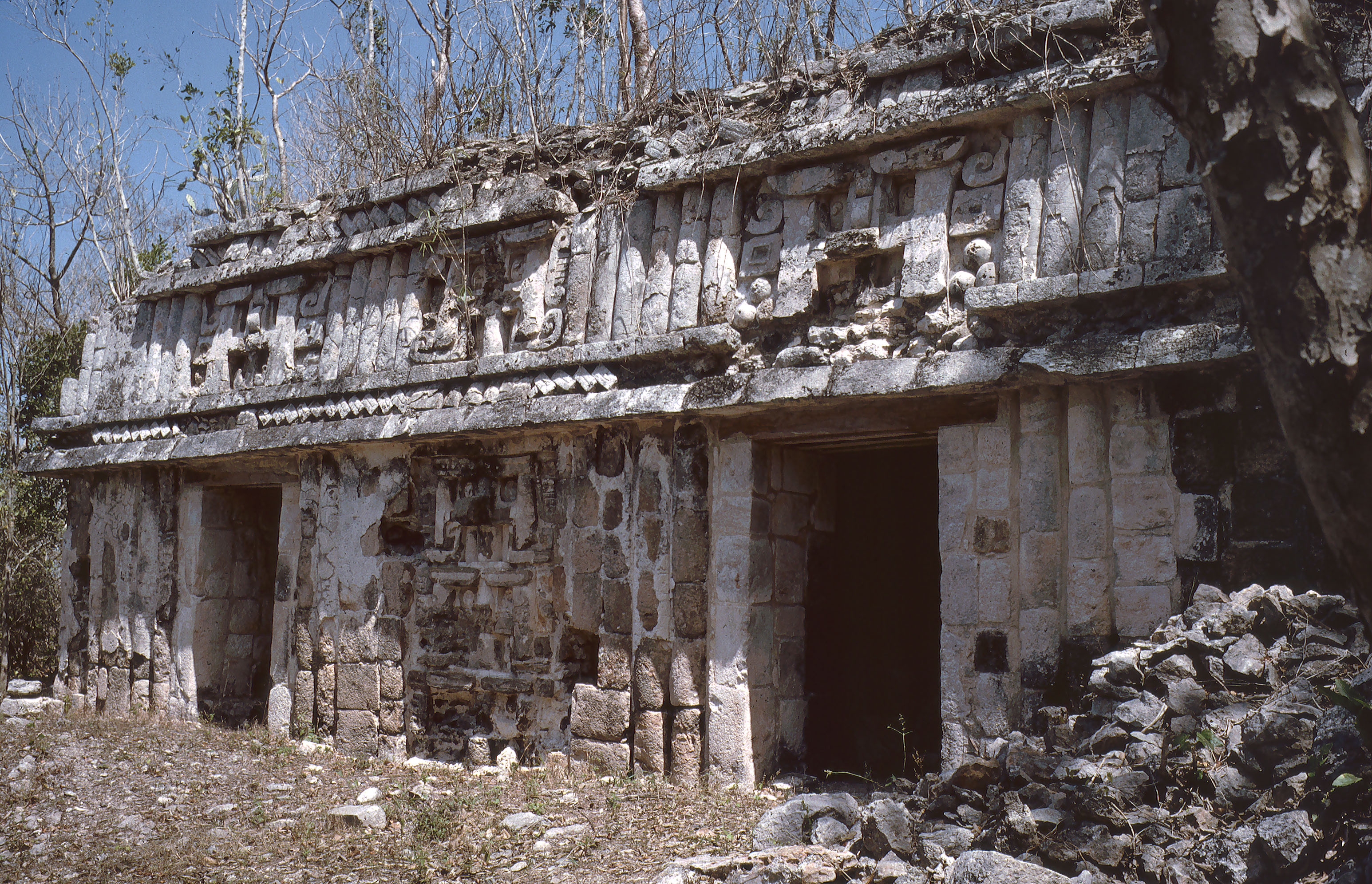 Xkichmook, Yucatan, Mexico: building 6.